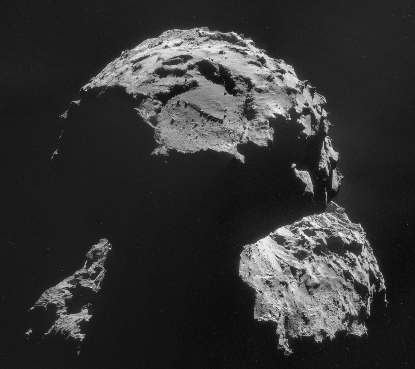 The Agilkia landing site is seen on this image of comet 67P/Churyumov–Gerasimenko, taken with Rosetta’s navigation camera on 6 November, just days before its lander Philae makes its historic descent to the surface. The image presented here is a mosaic of four individual NavCam frames, captured from a distance of 30.5 km from the comet centre on 6 November 2014 while Rosetta was en route to the separation trajectory from which it will deploy Philae on 12 November 2014. At this distance, the image scale is 2.6 m/pixel, and the mosaic measures 3.7 x 3.3 km. The landing site, covering about one square kilometre, is located close to the top of this image, above the easily recognisable, boulder-filled depression that characterises the smaller of the comet’s two lobes. Although it may not seem like it from this image, Agilkia – previously known as Site J – presented the least hazardous terrain of all the landing sites considered during the selection process. Much of the surface of the comet is covered in boulders – some larger than houses – as well as steep slopes, deep pits and towering cliffs. In the lower part of this image, the narrowness of the neck region connecting the two lobes is emphasised, with the rugged terrain of the larger lobe in the background. On 12 November 2014, Rosetta will release Philae from an altitude of 22.5 km from the comet centre at 08:35 GMT/09:35 CET, with signals confirming deployment arriving at Earth 28 minutes later. Philae will take about seven hours to descend to the surface, with the signal confirming a successful touchdown expected to arrive on Earth in a one-hour window centred on 16:02 GMT/17:02 CET. Follow the landing events live via esa.int/rosetta. The four individual images making up this mosaic are available via the blog.